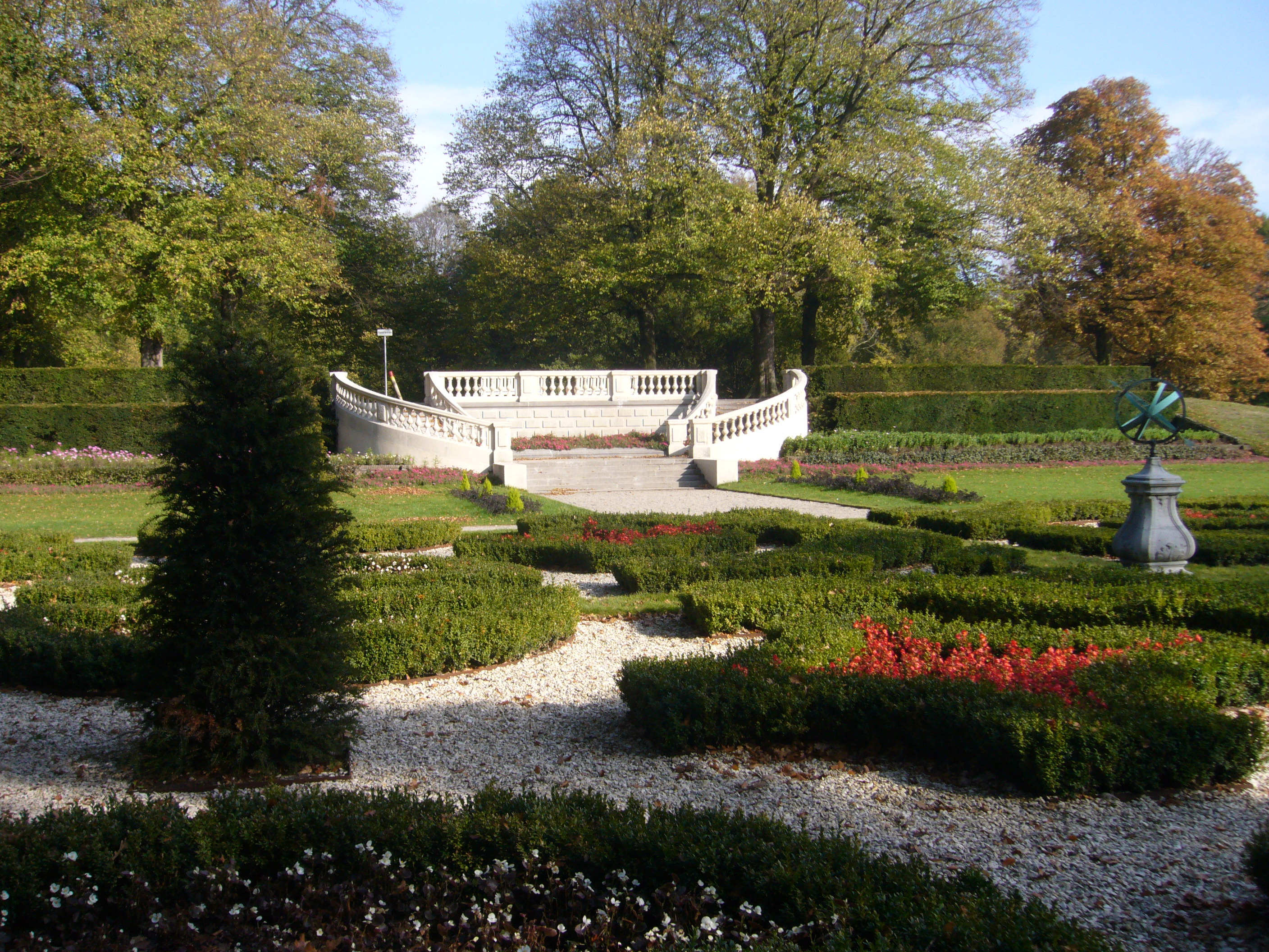 Clingendael Estate, The Hague, Dutch garden